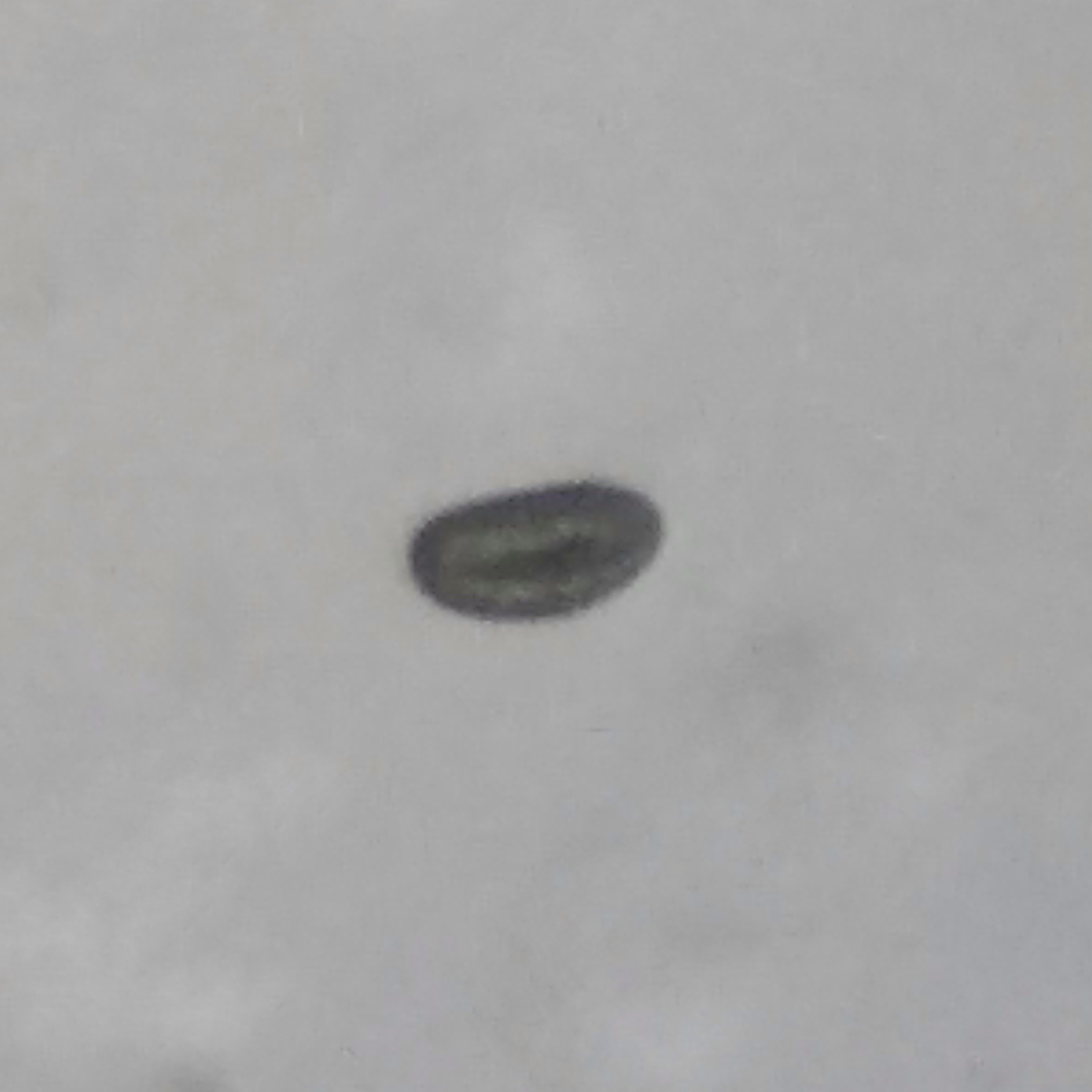 Pollens of Cardamine hirsuta